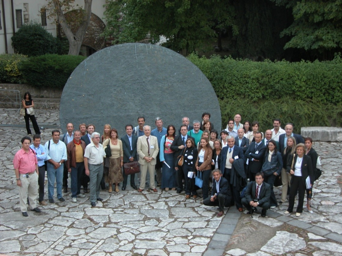 The Italian Group for Epidemiological Research in Dermatology (GISED) at the XIX annual meeting in Benevento (Italy)